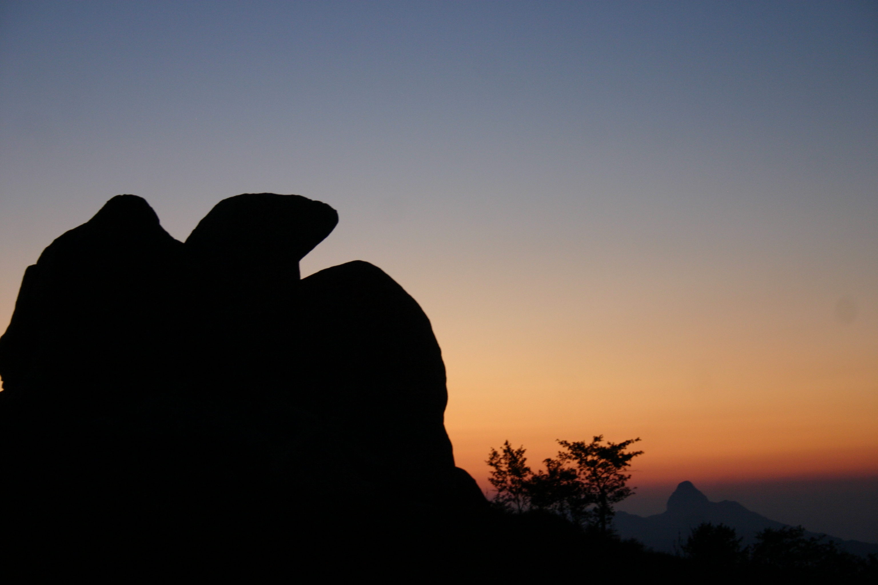 Eagle. This is not a megalith but a natural rock formation.